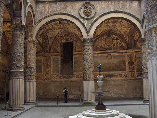 Courtyard of the Palazzo Vecchio, Florence, Italy Own photo - photo made on 13 October 2005